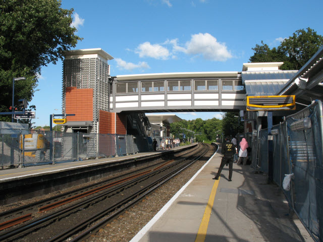 Greenhithe station: ... and in with the new The new station buildings being erected in 2008 to replace the old ones 876537 were the pilot project for a new modular design of station building to be used across the National Rail network.